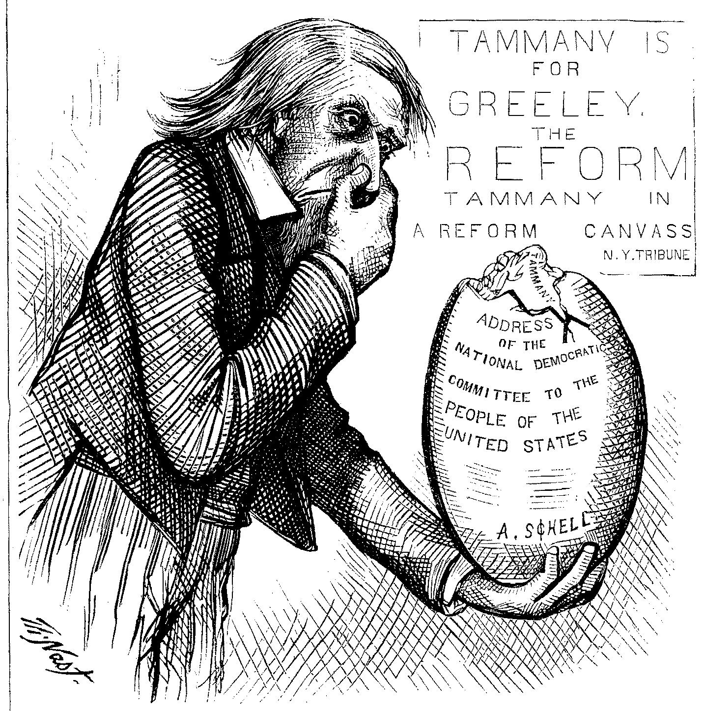 Uncle Sam holds his nose with one hand and an egg in the other which says "Address of the National Democratic Committee to the people of the United States. -- A. Schell." In the background is a sign which says "Tammany is for Greeley: the reform Tammany in a reform Canvass. -- N. Y. Tribune." Caption: THE SAME OLD SMELL.